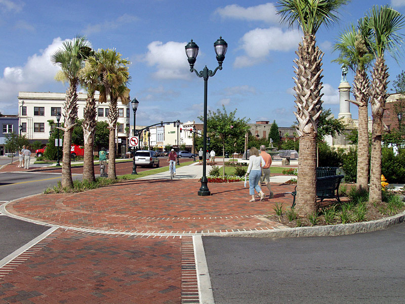 Russell@Broughton